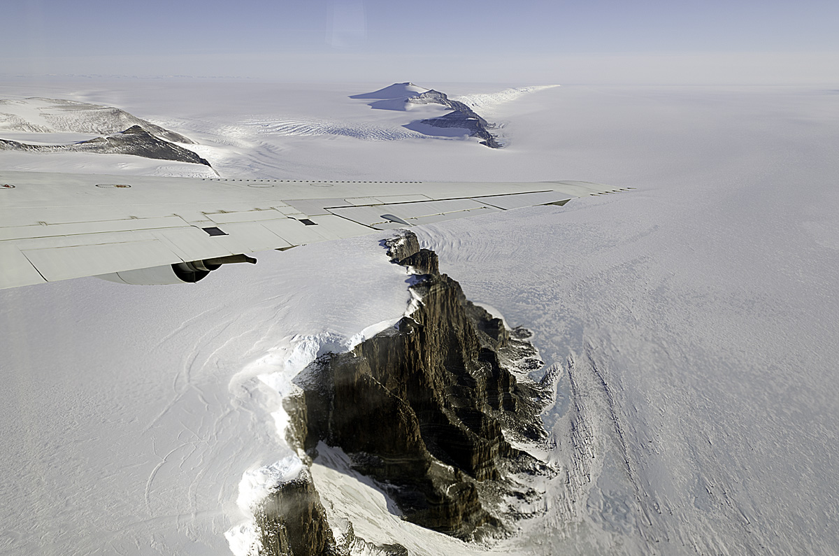 The tip of the DC-8's wing cuts across a dramatic view of Antarctica's Theron Mountains on Oct. 21, 2011. Credit: Michael Studinger/NASA